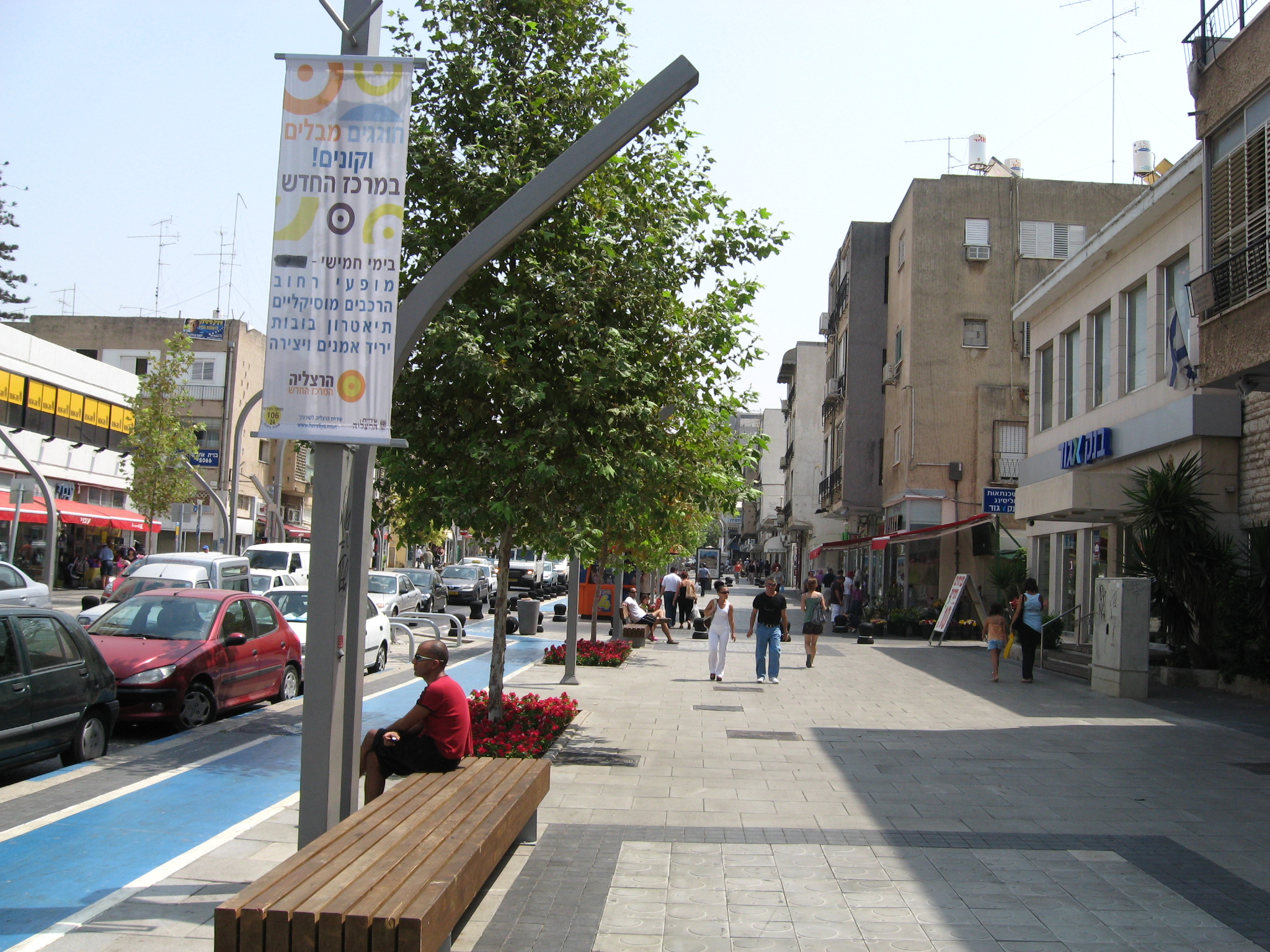 Herzliya Sokolov Street